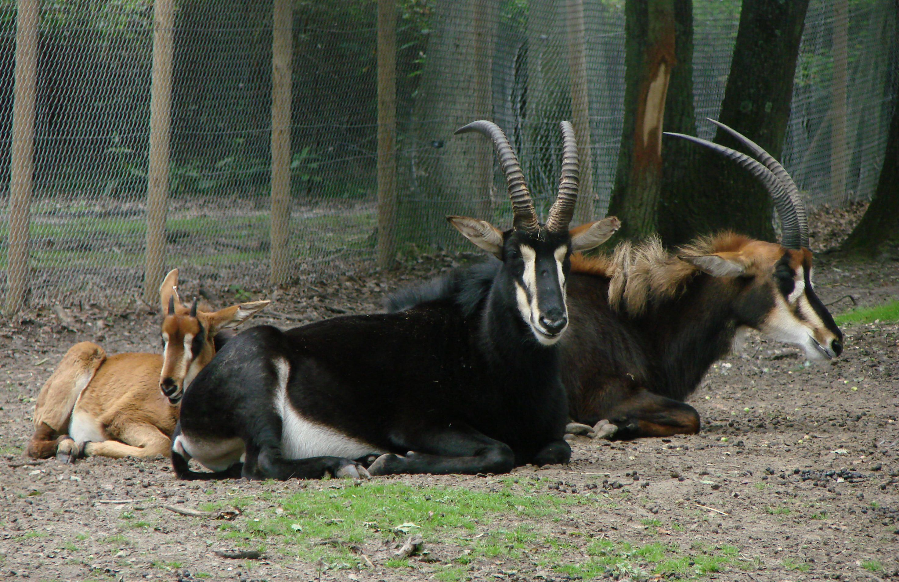 Sable antelopes (Hippotragus niger) in the Thoiry zoo.